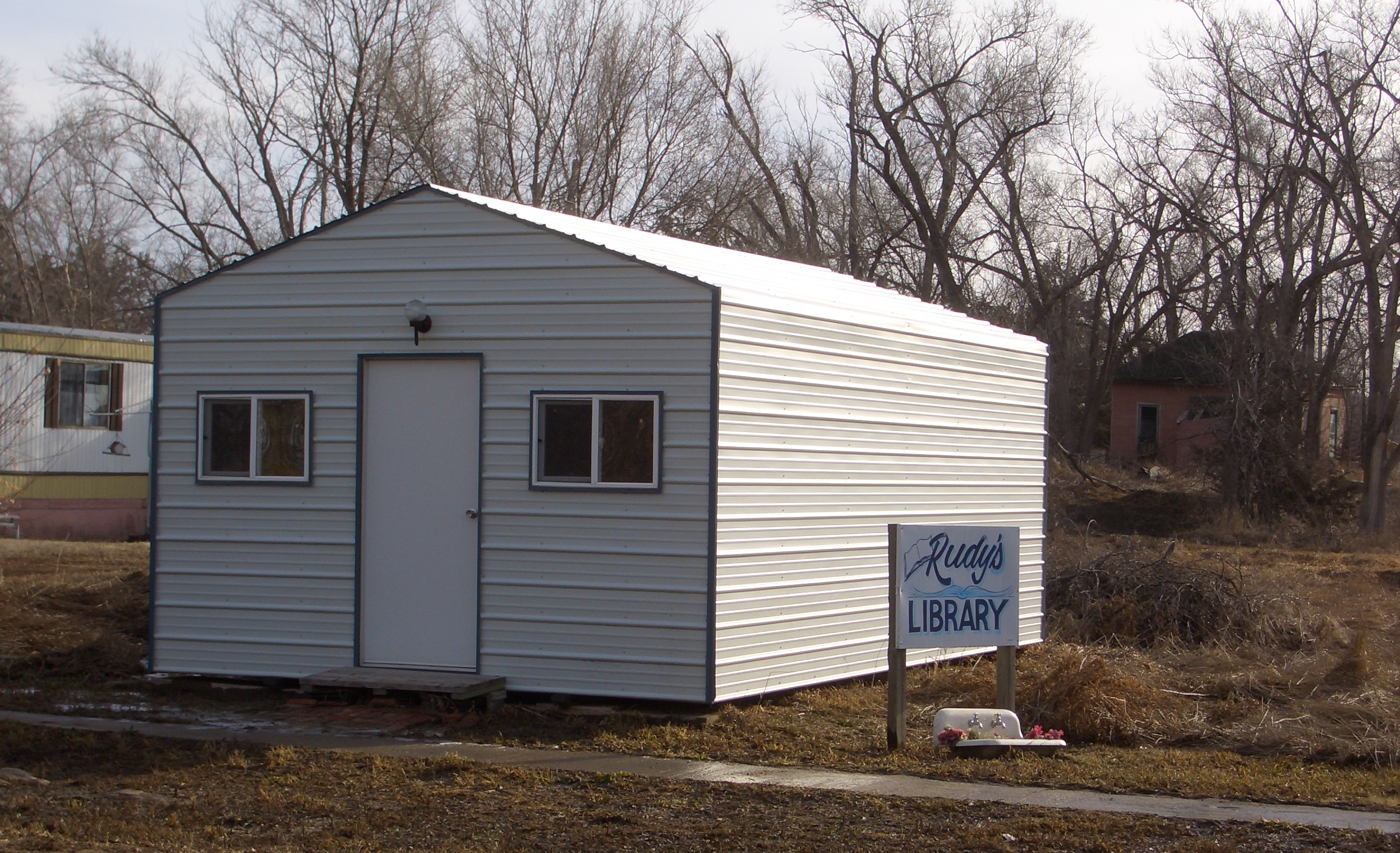 Rudy's Library in Monowi, Nebraska, United States. Cropped losslessly using Jpegcrop.